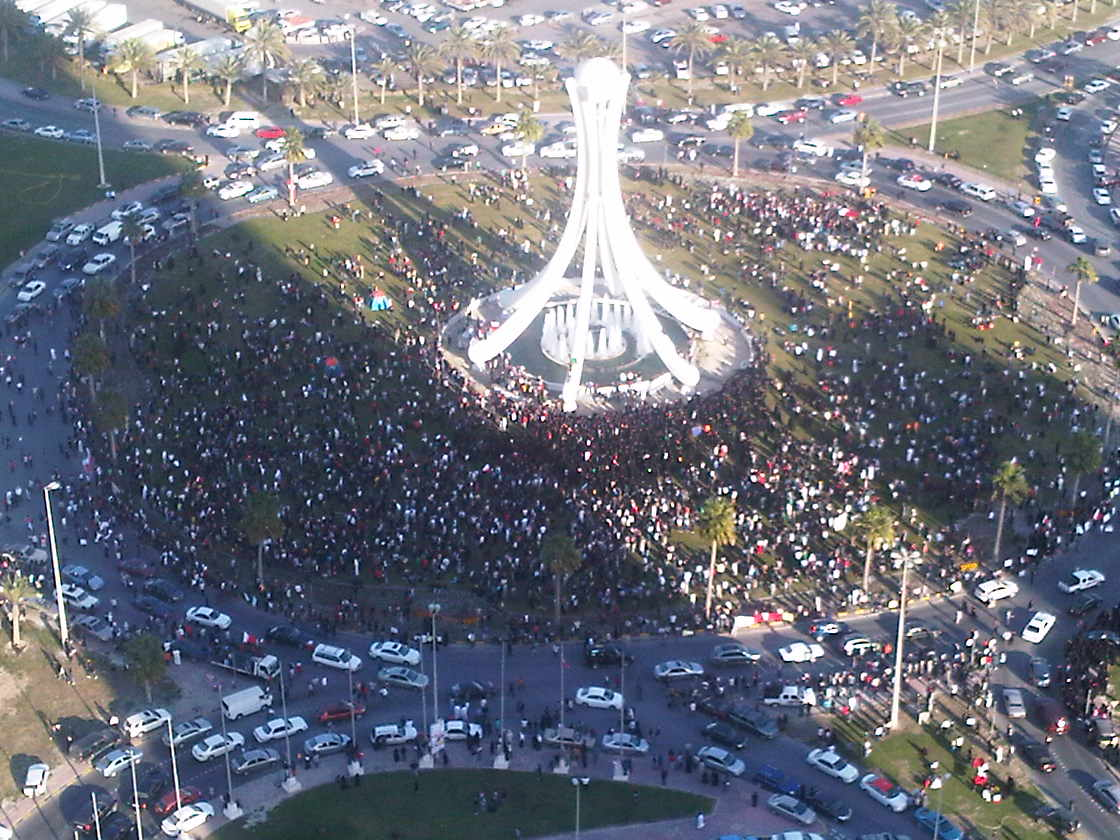 Protests in Bahrain, February 2011